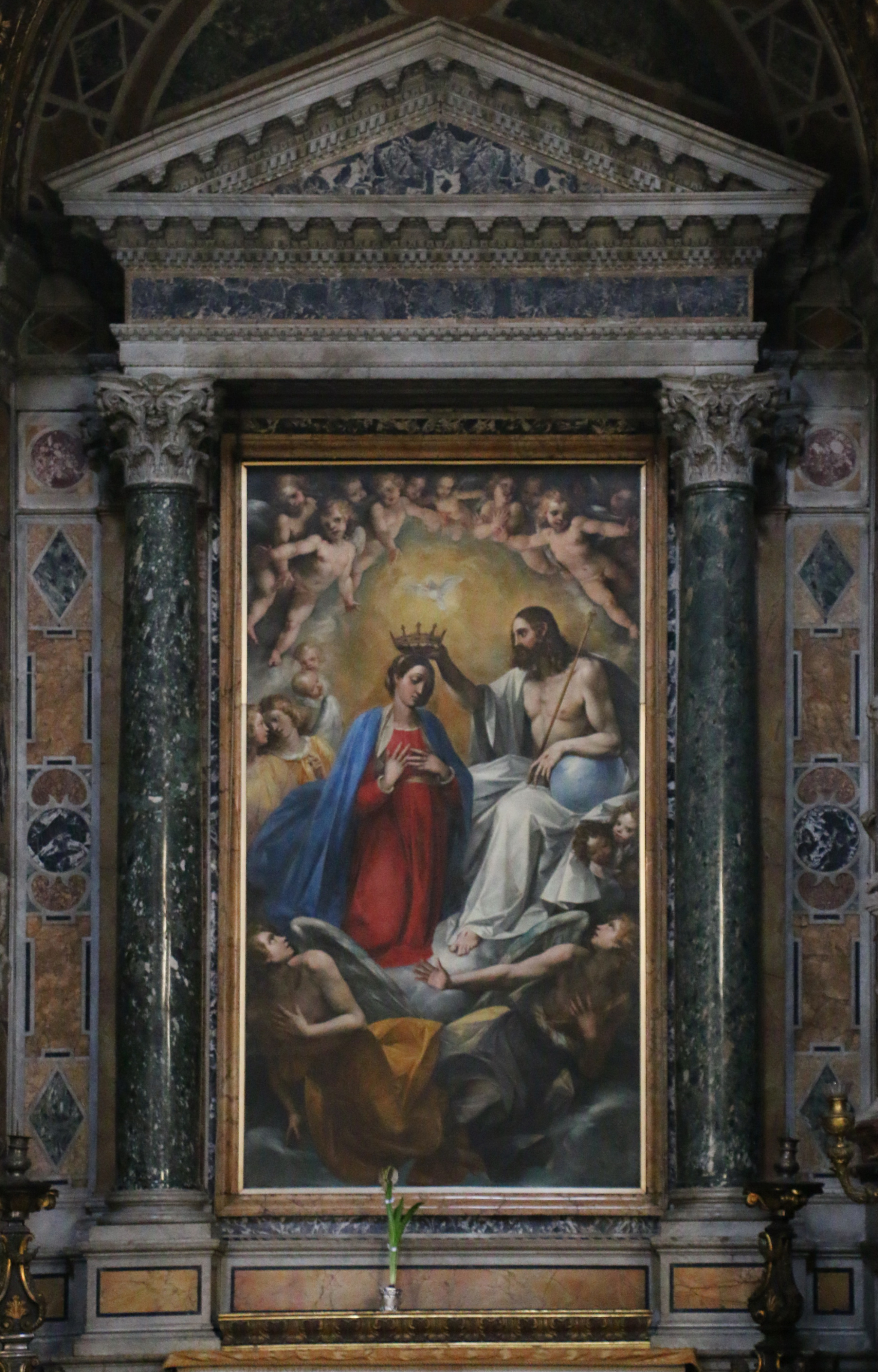 Cappella dell'Incoronazione della Vergine - Cavalier d'Arpino Chiesa di Santa Maria in Vallicella, Rome, Lazio, Italy